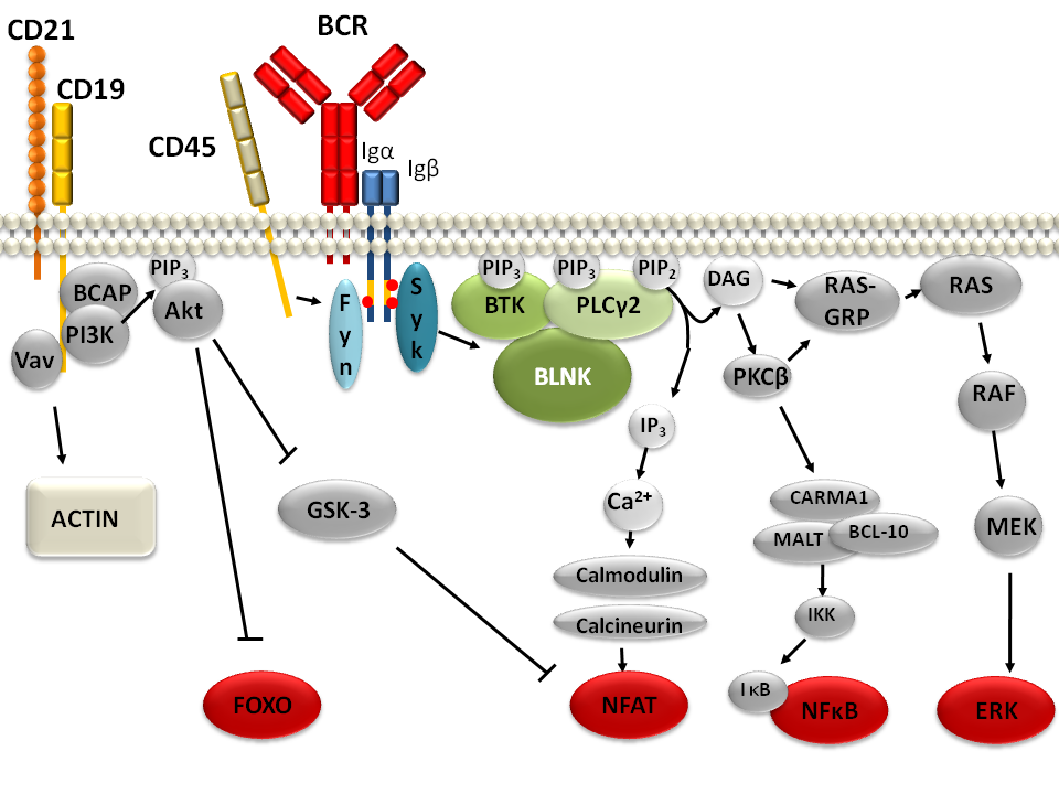 BCR-signalling without inhibitory receptors